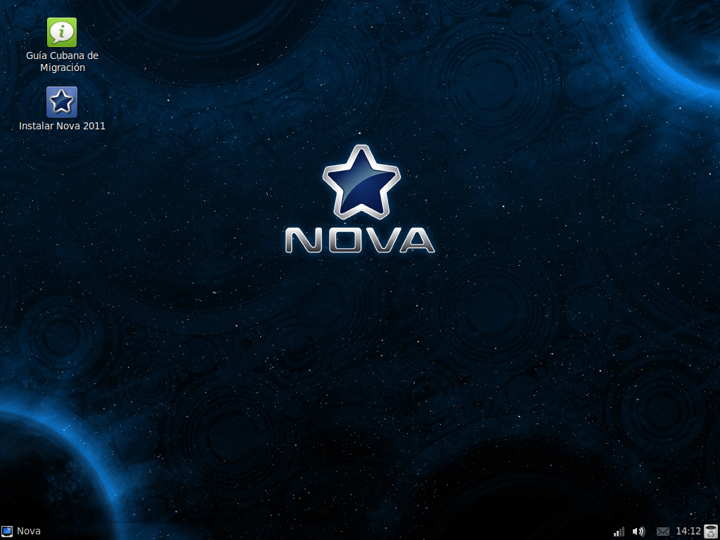 A screenshot of Nova 2011 Release 1